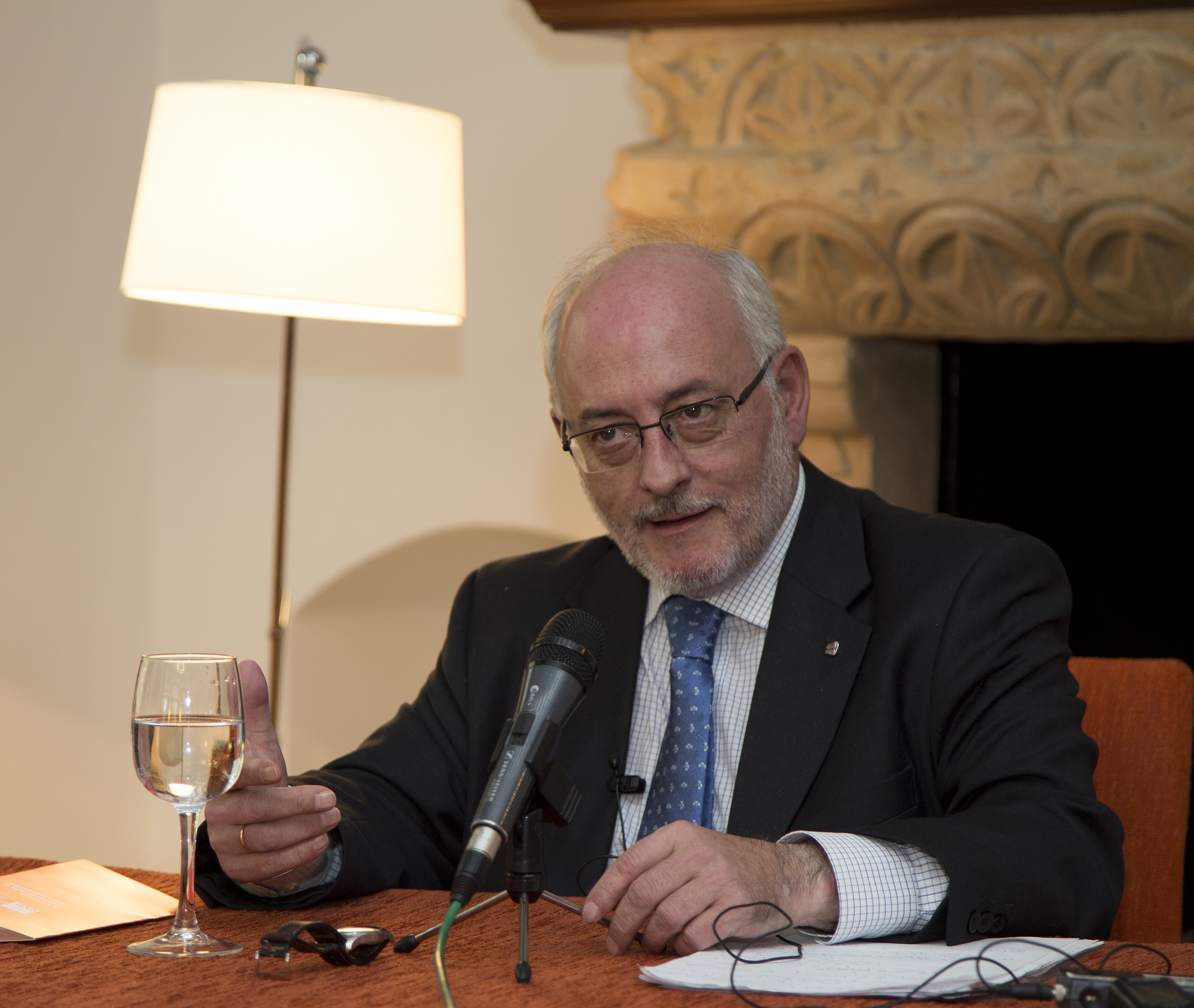 Benigno Blanco, Spanish lawyer.